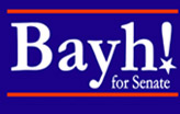 Evan Bayh campaign logo